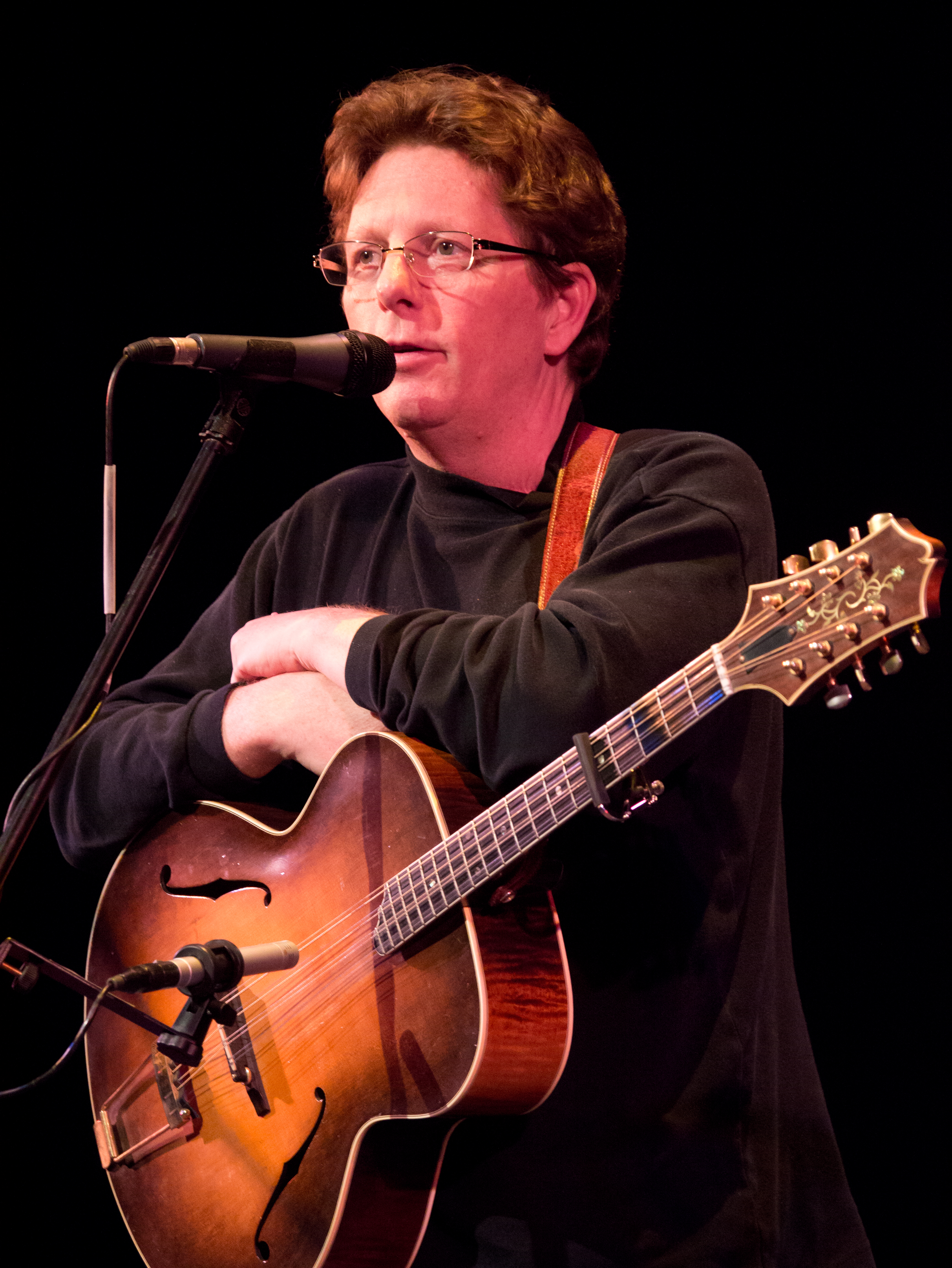 Tim O'Brien onstage with guitar during Knicely's Big Winter Concert 2012 in Franklin Park in Round Hill, Virginia on February 17, 2012.